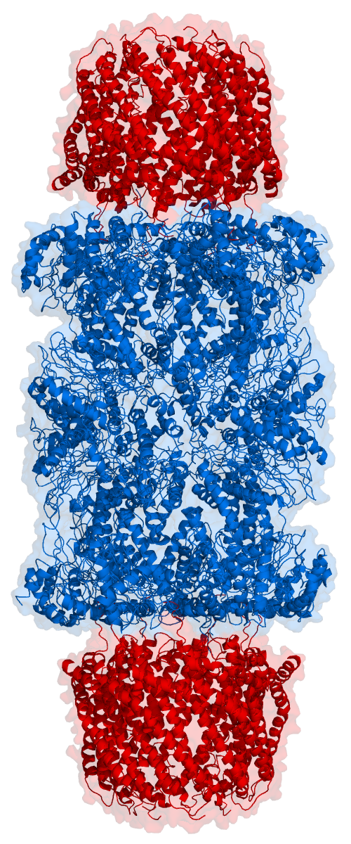 Cartoon representation of a proteasome. This cylinder-shaped protein has its active sites sheltered inside the tube (blue). The caps (red) on the ends regulate entry into the destructive chamber, where the protein is chopped into pieces 3 to 23 amino acids long. For more information see publication: [1]